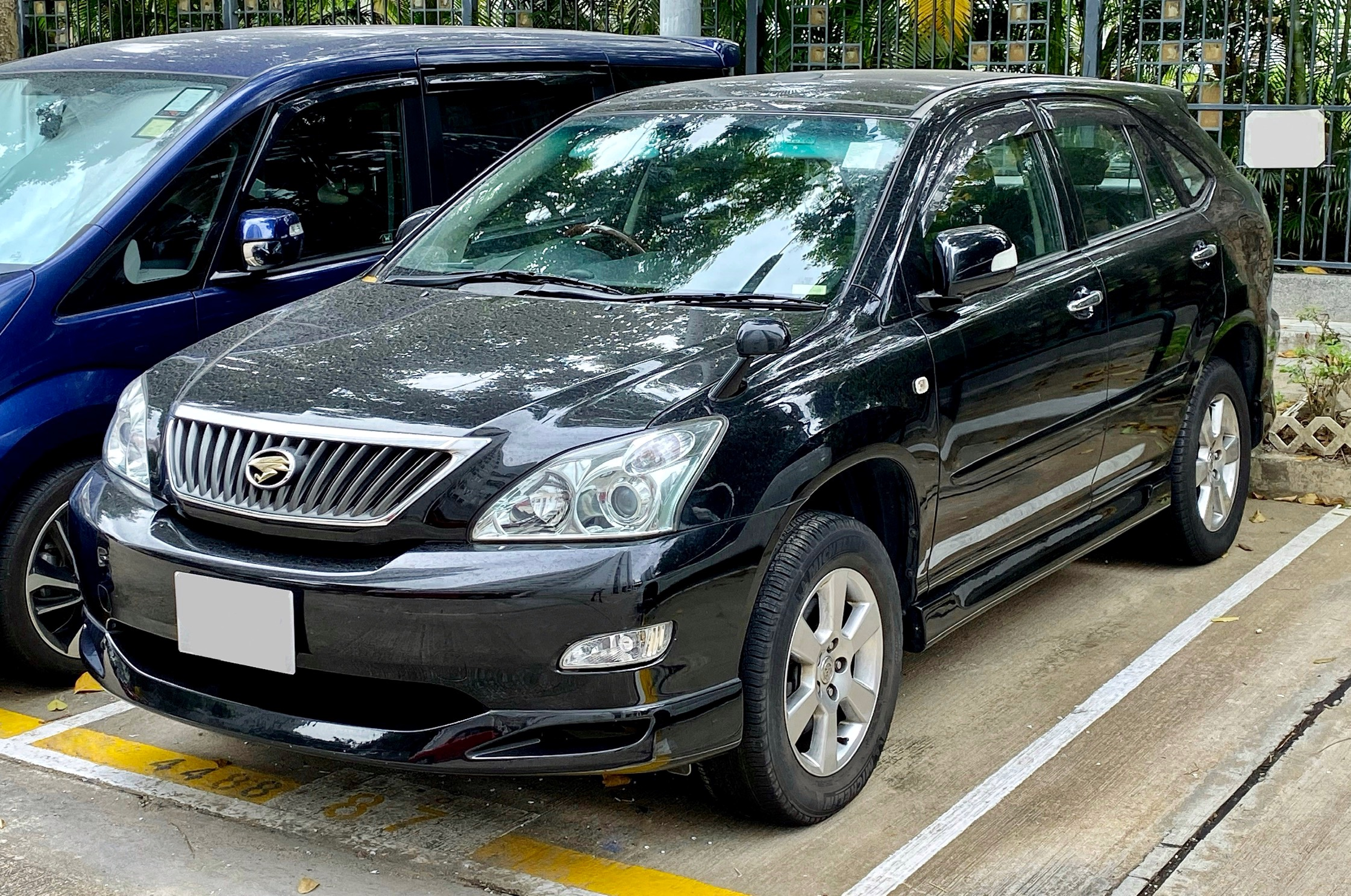 A 2004 Toyota Harrier taken in Hong Kong